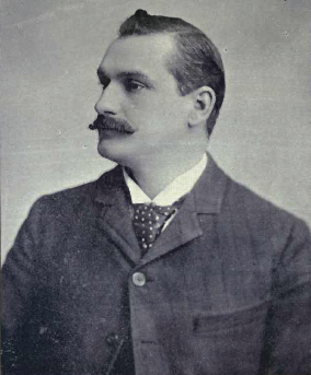 Joseph Girouard Source: The Canadian album : men of Canada; or, Success by example, in religion, patriotism, business, law, medicine, education and agriculture; containing portraits of some of Canada's chief business men, statesmen, farmers, men of the learned professions, and others; also, an authentic sketch of their lives; object lessons for the present generation and examples to posterity (Volume 4) (1891-1896) Creator:Cochrane, William, 1831-1898 Creator:Hopkins, J. Castell (John Castell), 1864-1923 Publisher:Brantford, Ont. : Bradley, Garretson & Co. Date:1891-1896